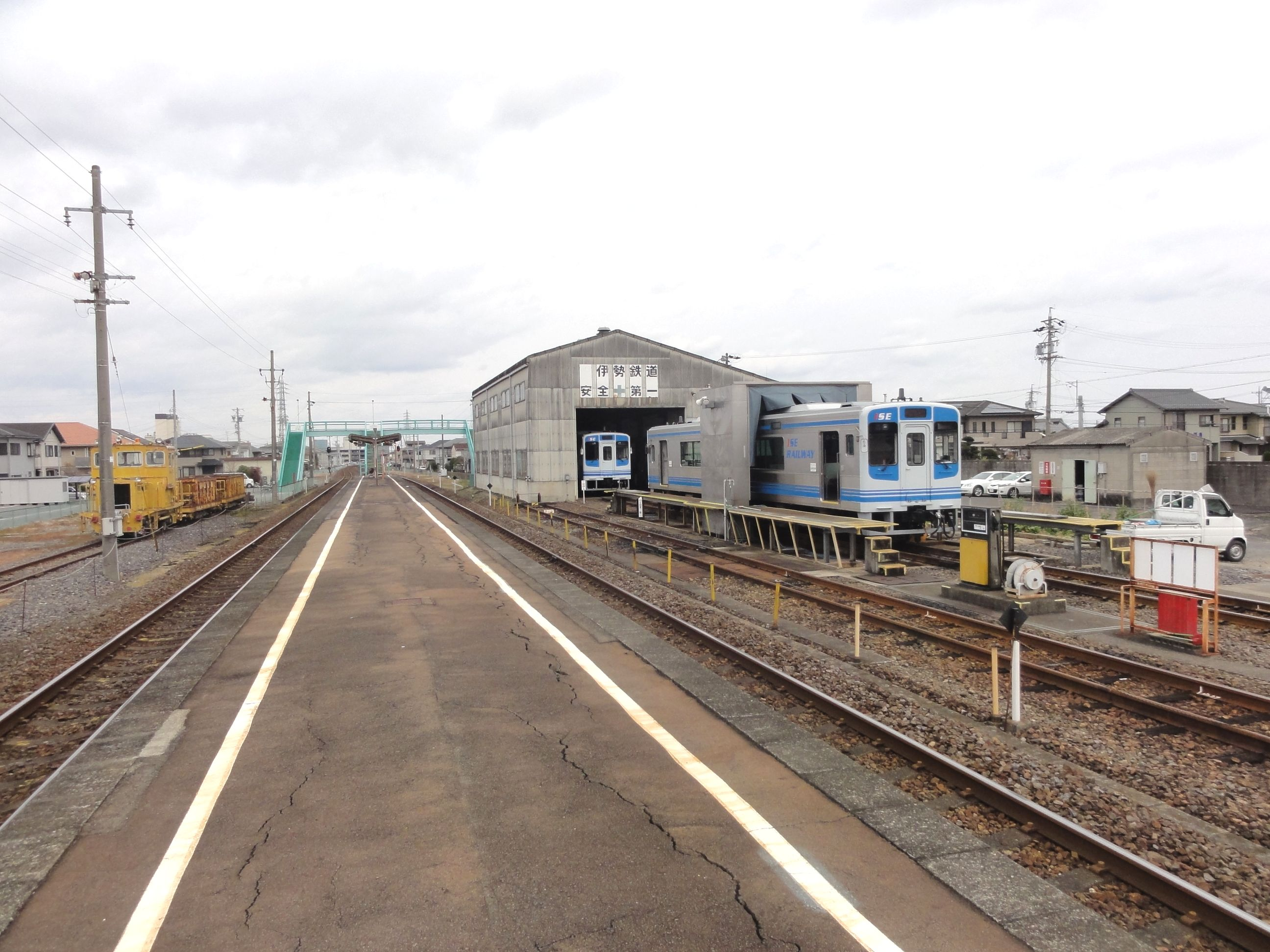 Tamagaki Station platform